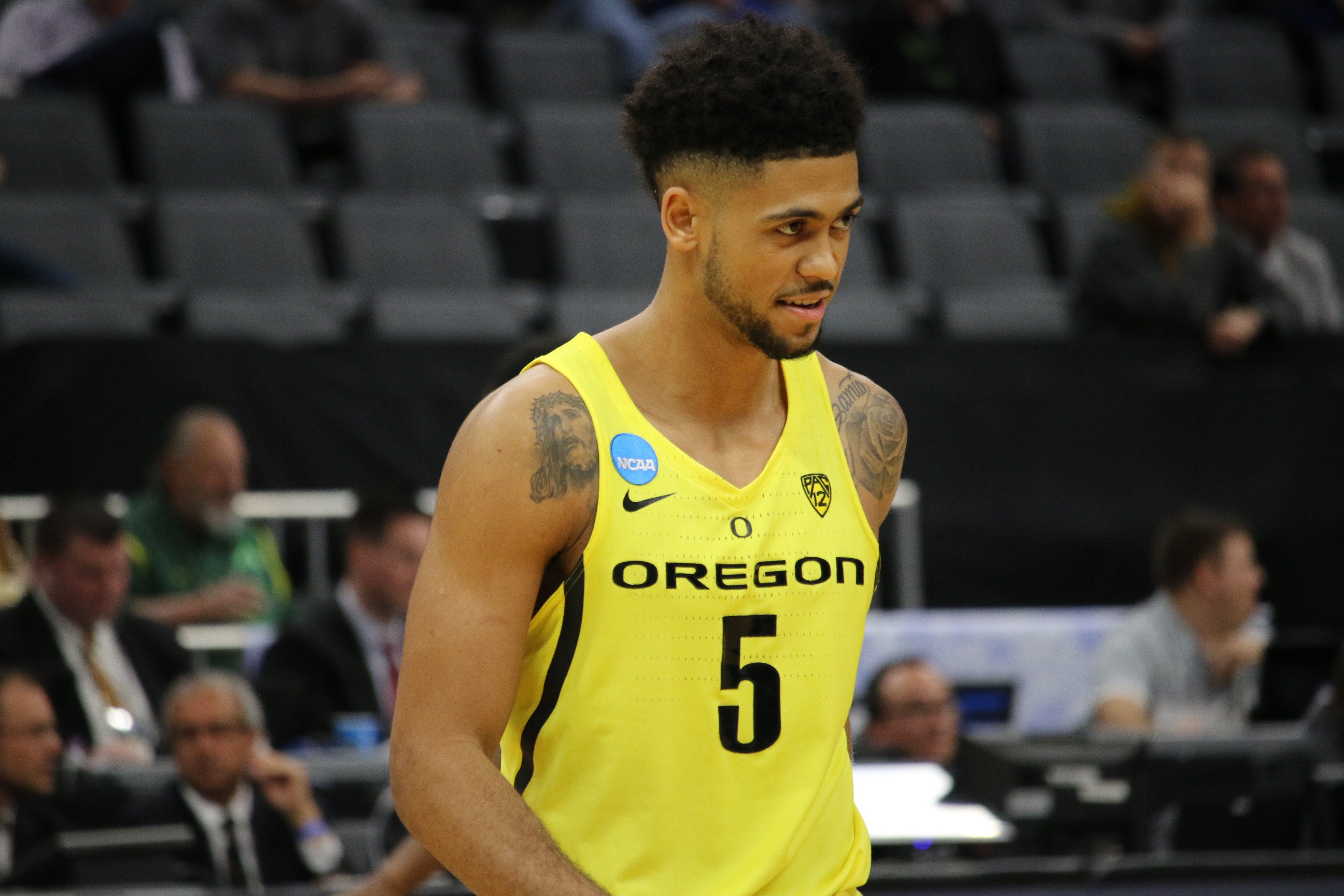 Tyler playing in the round of 64